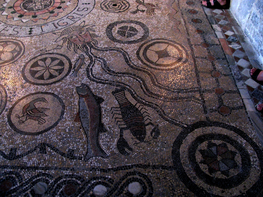 Middle-age mosaic of Tigris, one of four rivers in Genesis. Ancient bishop's palast in Die (Drôme) France